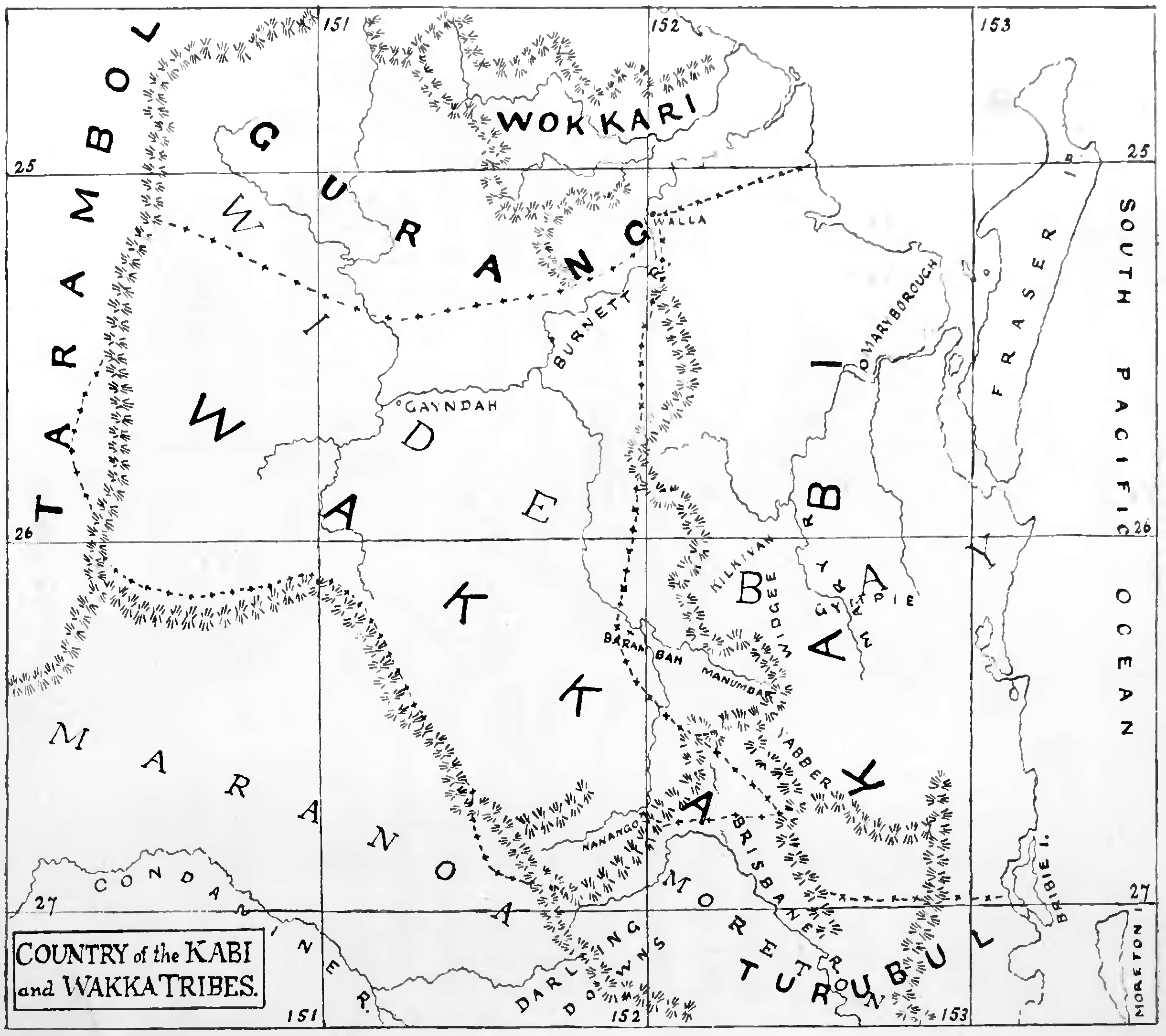 Map of Country of the Kabi and Wakka Tribes